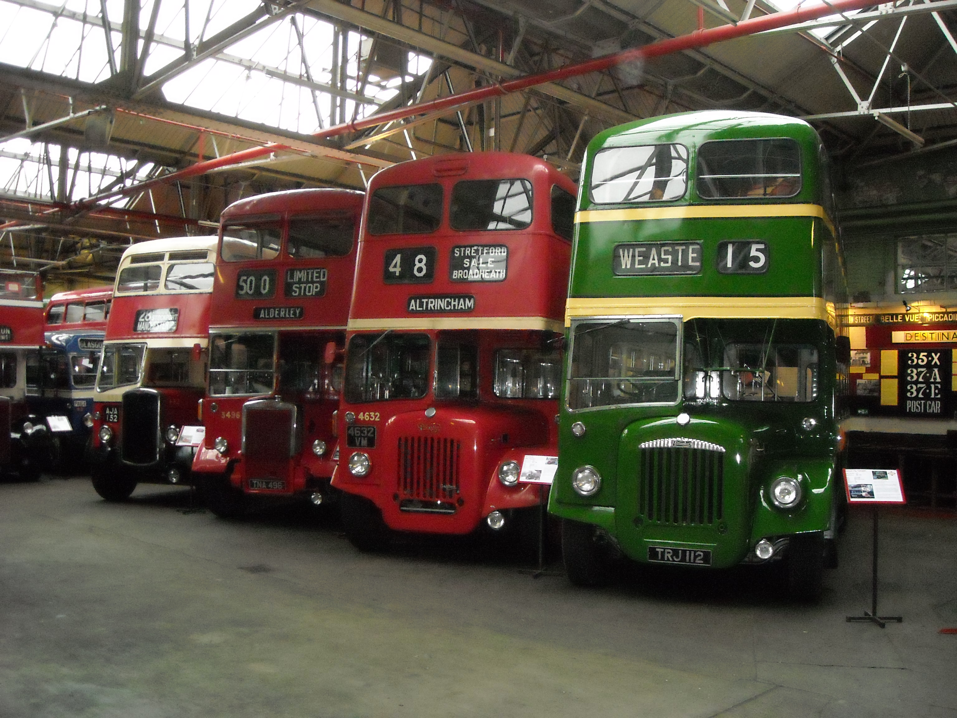 Four buses in the Museum of Transport in Manchester, all in their original liveries. From left to right, they are: North Western Road Car Company's 432 (AJA 152), a 1939 Bristol K5G/Willowbrook. Manchester Corporation's 3496 (TNA496), a 1958 Leyland Titan PD2/Burlingham. Manchester Corporation's 4632 (4632 VM), a 1963 Daimler CVG6/Metro Cammell. Salford Corporation's 112 (TRJ 112), a 1962 Daimler CVG6/Metro Cammell.